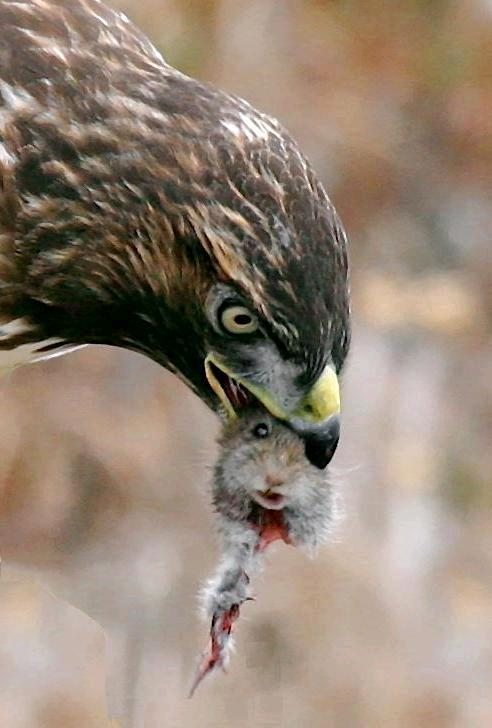 cropped from Image:Hawk eating prey.jpg, for template use.A hawk (Buteo jamaicensis) eating a vole (Microtus californicus)